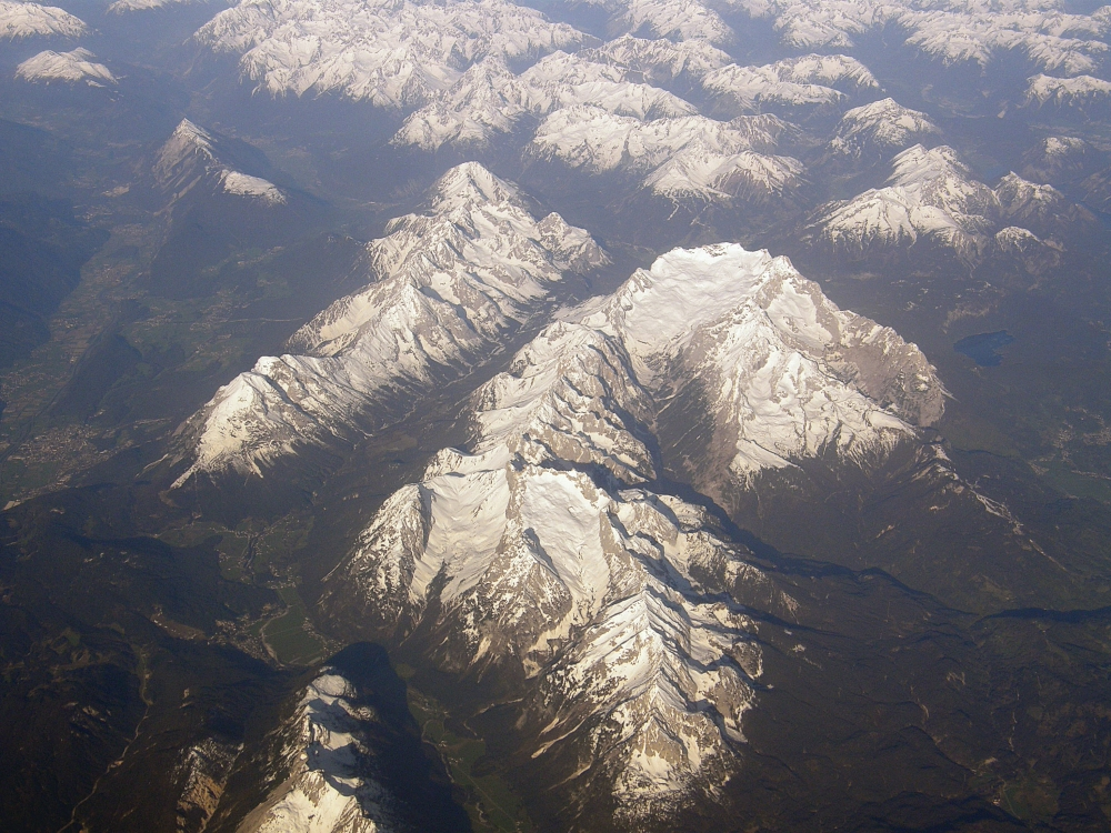 Aerial Photo of Austrian (Tyrol) and German (Bavaria) Alps: In the center Wettersteingebirge, left Mieminger Kette (Mieminger Gebirge) with Tschirgantmassiv. Far left Inntal. In front: Arnspitzgroup. Background: Lechtaler Alpen. View to southwest